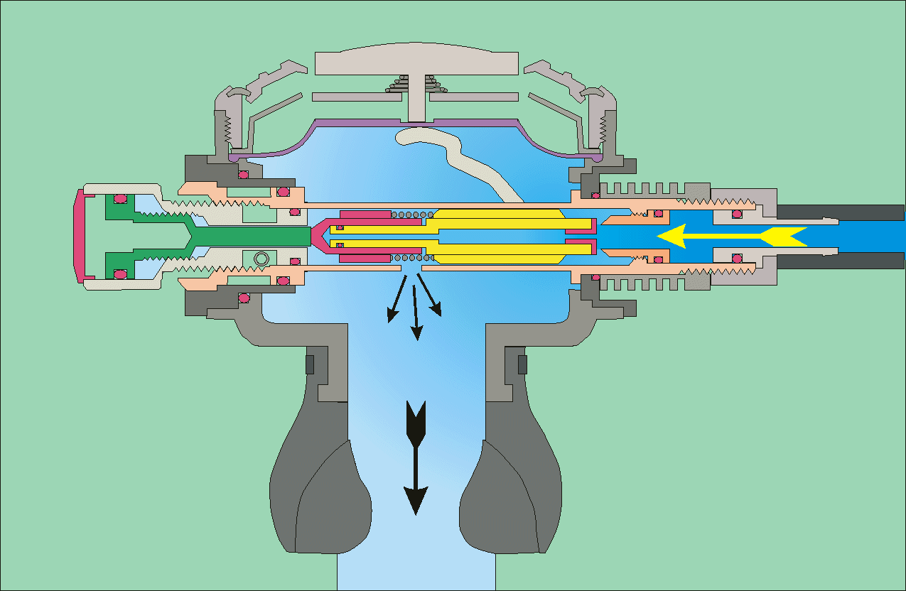 Schematic section animation of Scuba regulator 2nd stage. Purge button depressed; Valve partially open